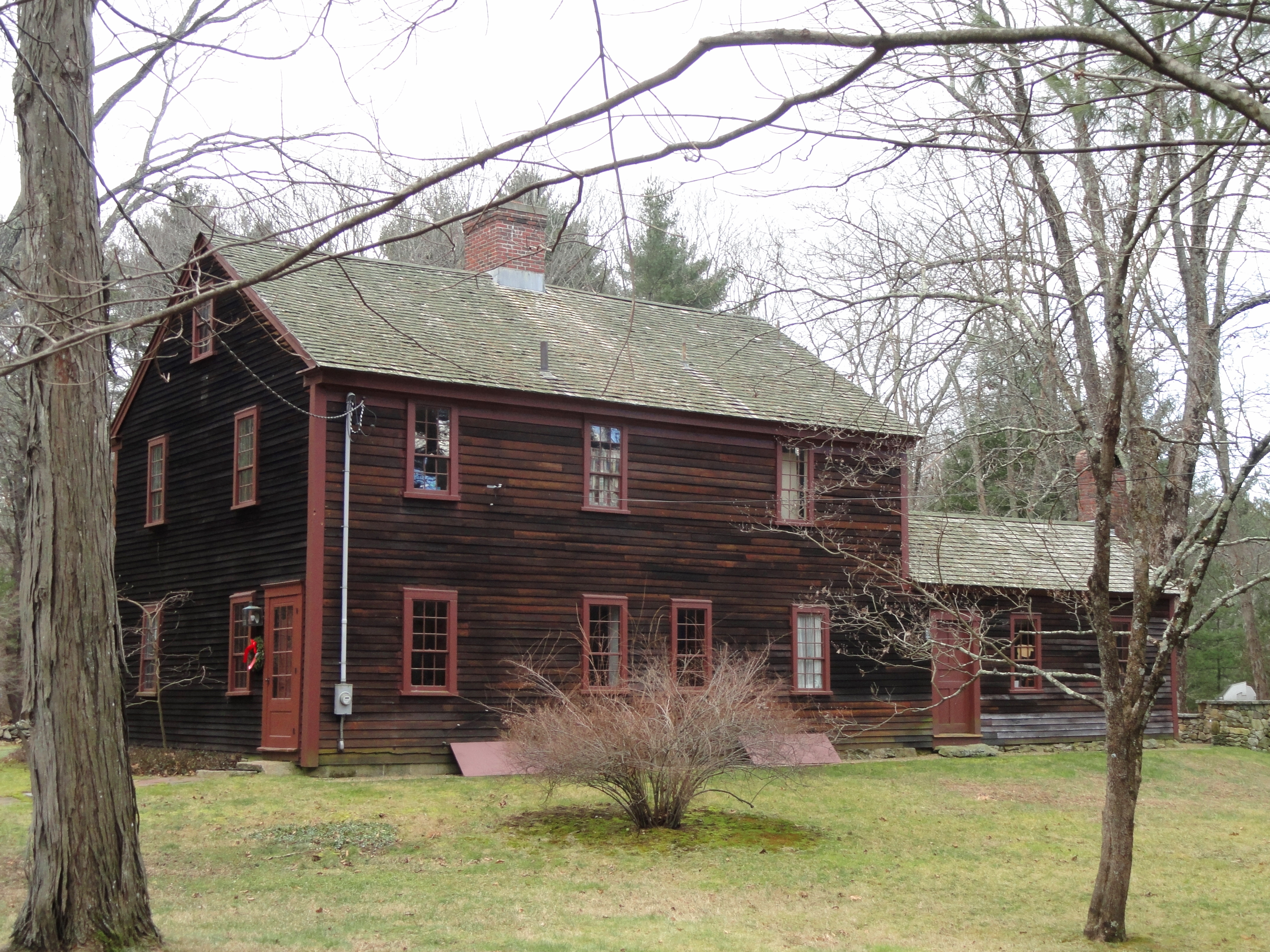 Historic house in Sherborn, Massachusetts, USA. This house is listed on the National Register of Historic Places.